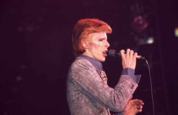 The Young Americans tour at the Washington DC Capital Centre on 11 November 1974.